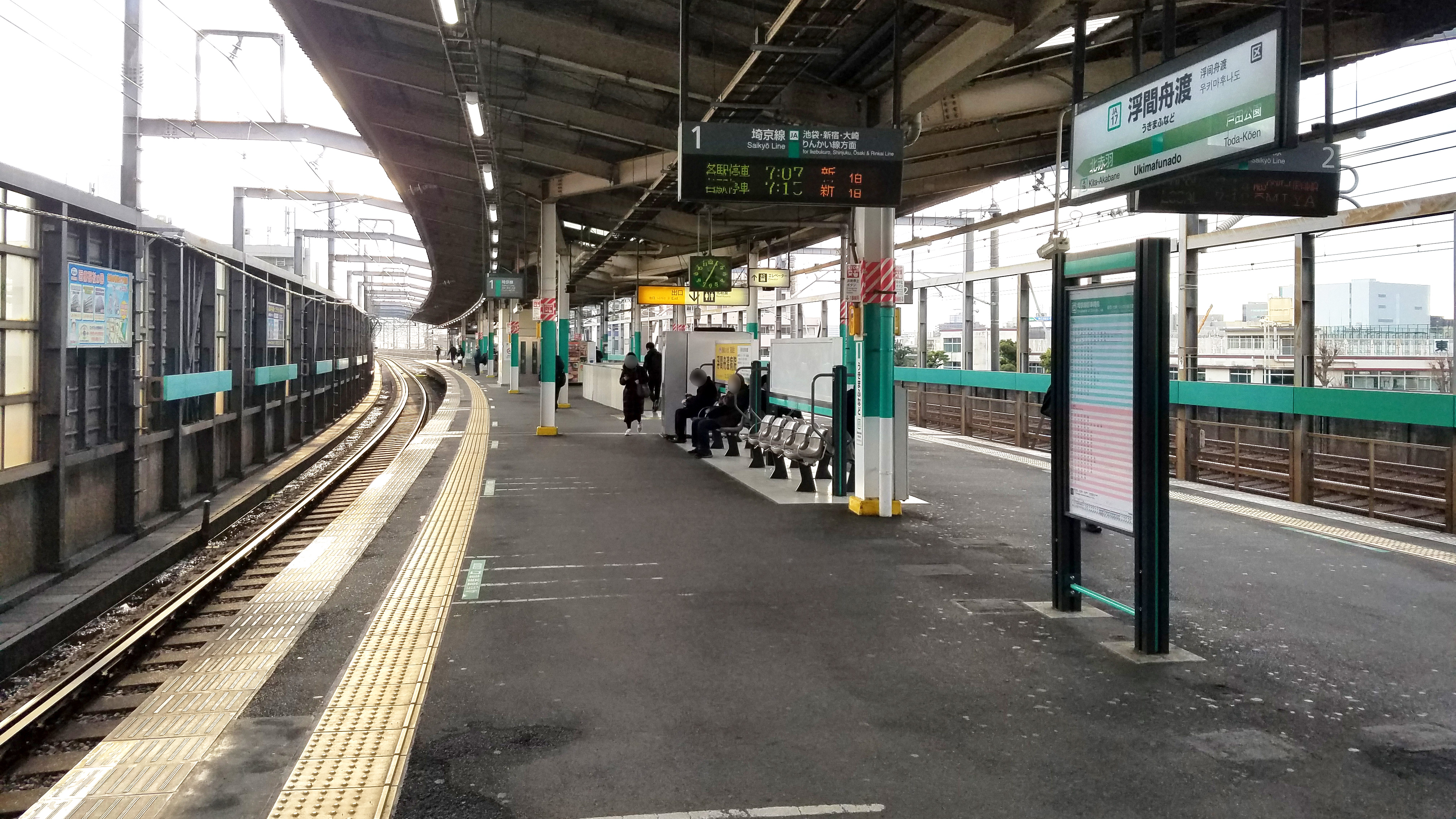 The platform at Ukima-Funado Station on the Saikyo Line in Kita city, Tokyo, Japan